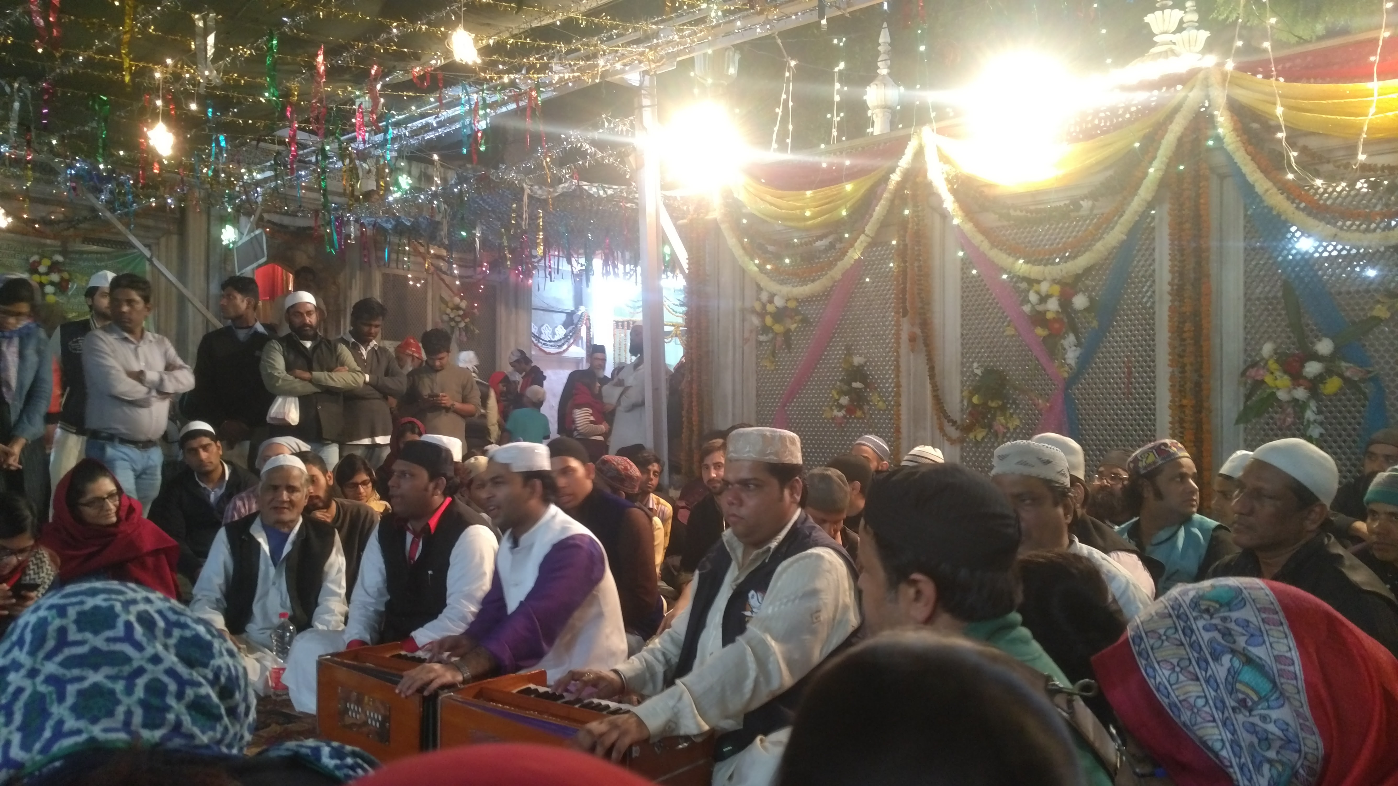 Qawwali at Hazrat Nizamuddin Dargah, Delhi